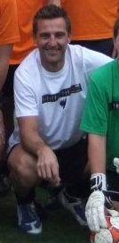 Parliamentary Secretary for Immigration and Multicultural Affairs Senator Kate Lundy pulled on her football boots to promote Harmony Day in the Pollies v Professionals match. Senator Lundy led a bipartisan team of football-playing politicians including federal ministers Stephen Conroy, as well as Alan Griffin, Bert van Manen and Senator Steve Fielding. SBS presenter and former Socceroo Craig Foster led the Professionals, with team members including former Socceroos Kimon Taliadoris, Zjelko Kalac and David Zdrilic and SBS football personalities Les Murray and David Basheer.